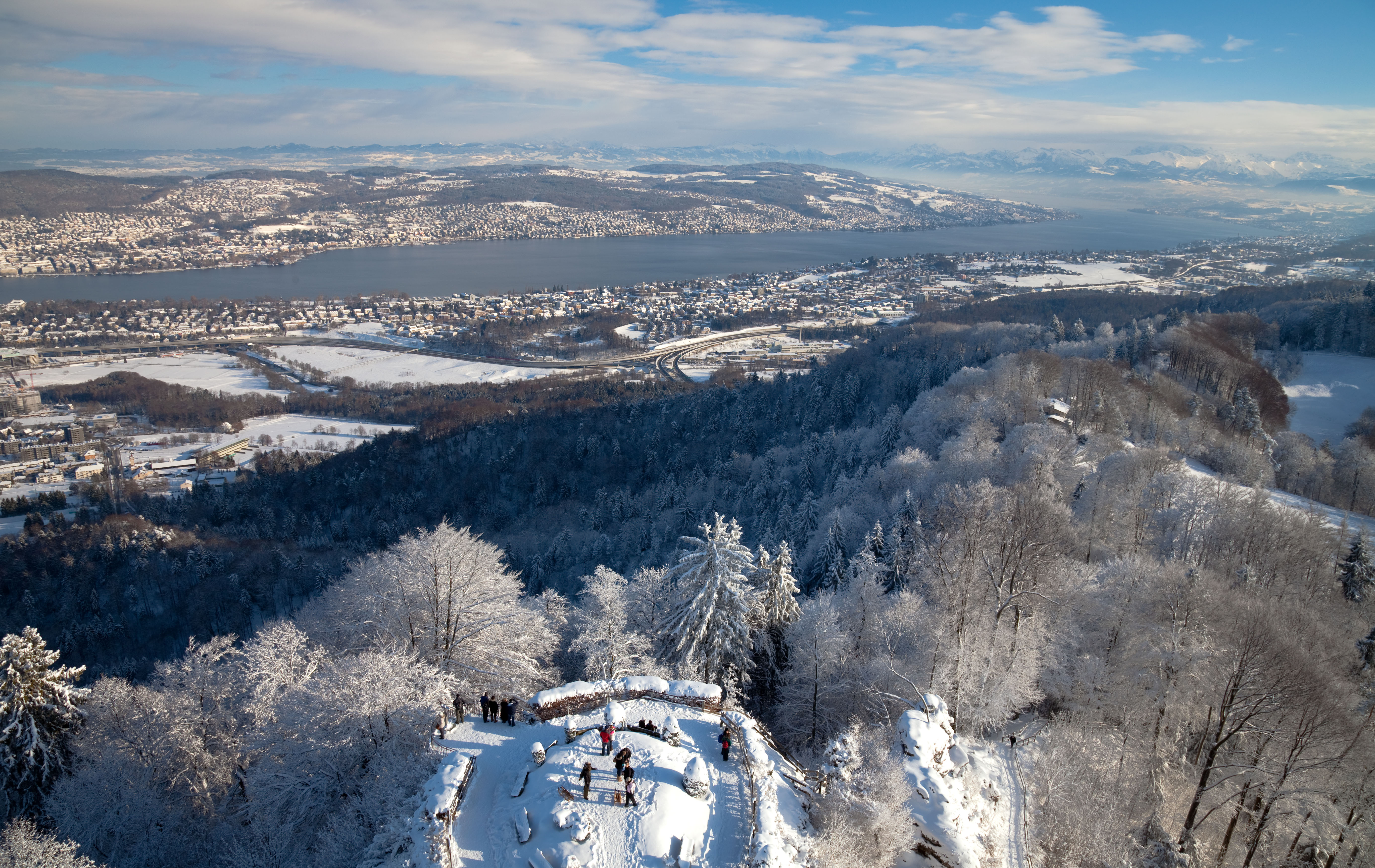 View from the top of the telecommunications tower at Uetliberg, Zurich, Switzerland. On the foreground: the observation deck at Uto Kulm, Uetliberg. On center: Lake Zurich and the "Golden Mile" of Zurich. Background, right: the alps of canton Glarus.